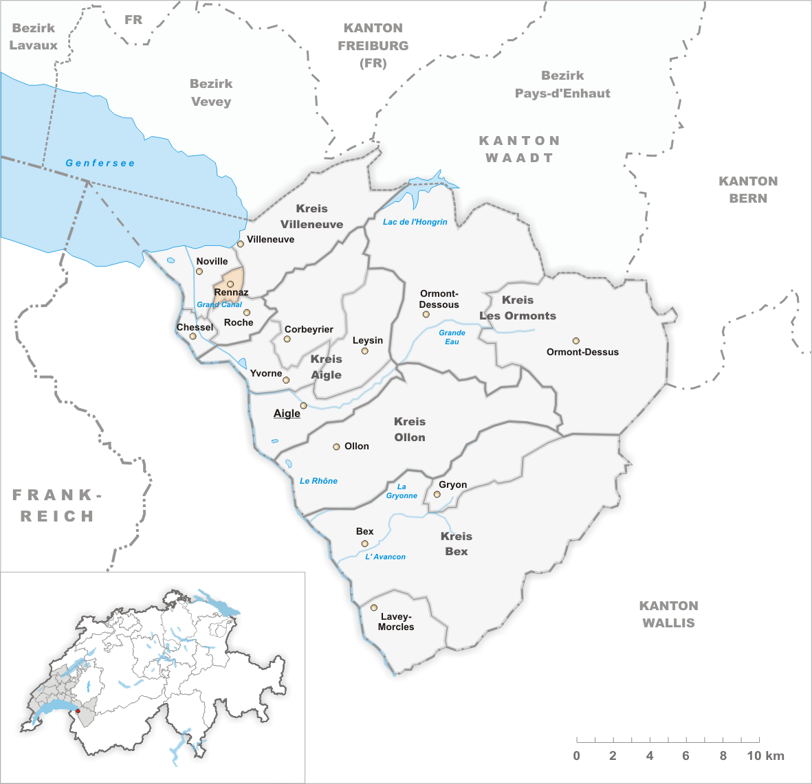 Municipality Rennaz